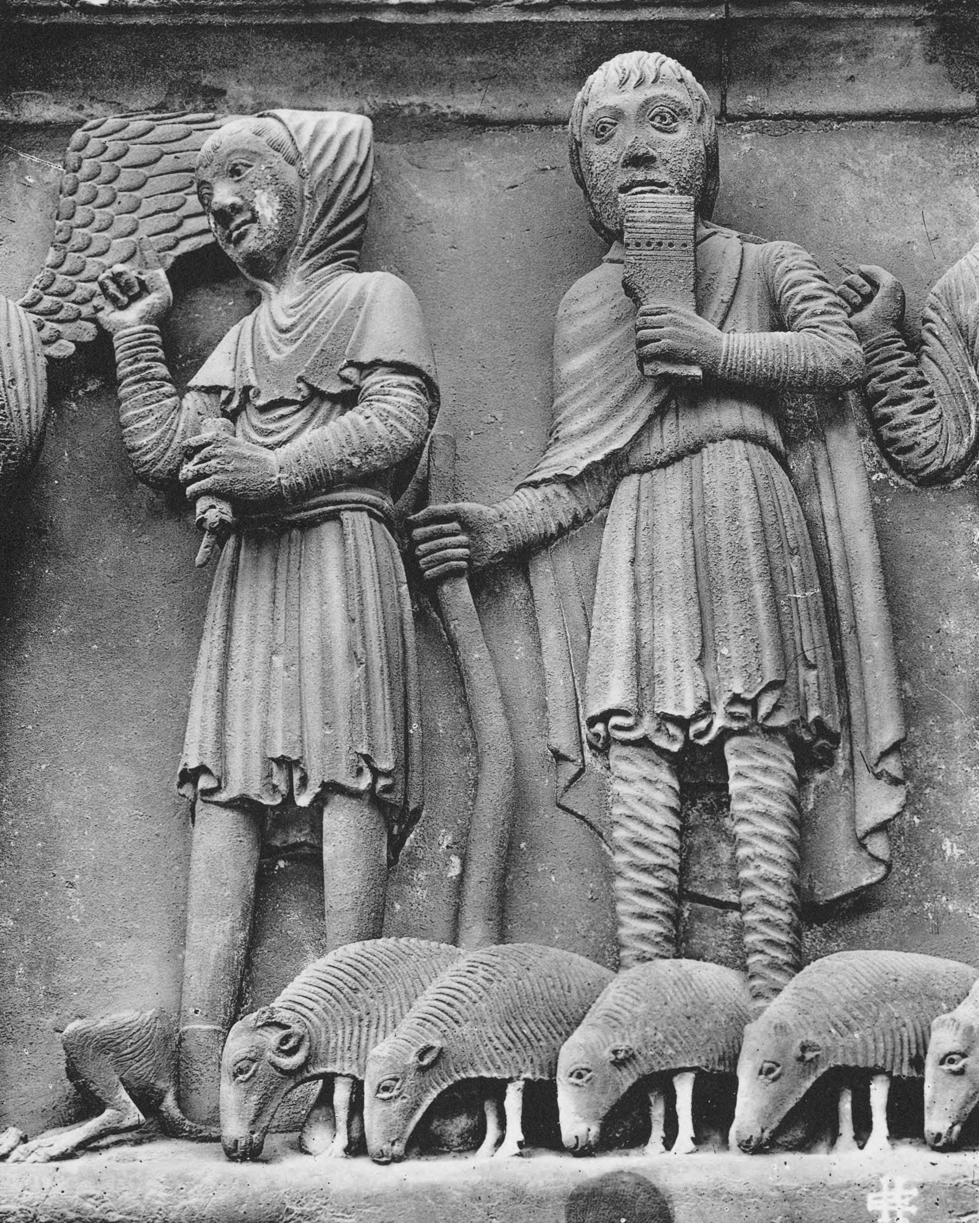 Chartres, West Façade, right Portal, lower Lintel: Detail of the Annunciation to the Shepherds